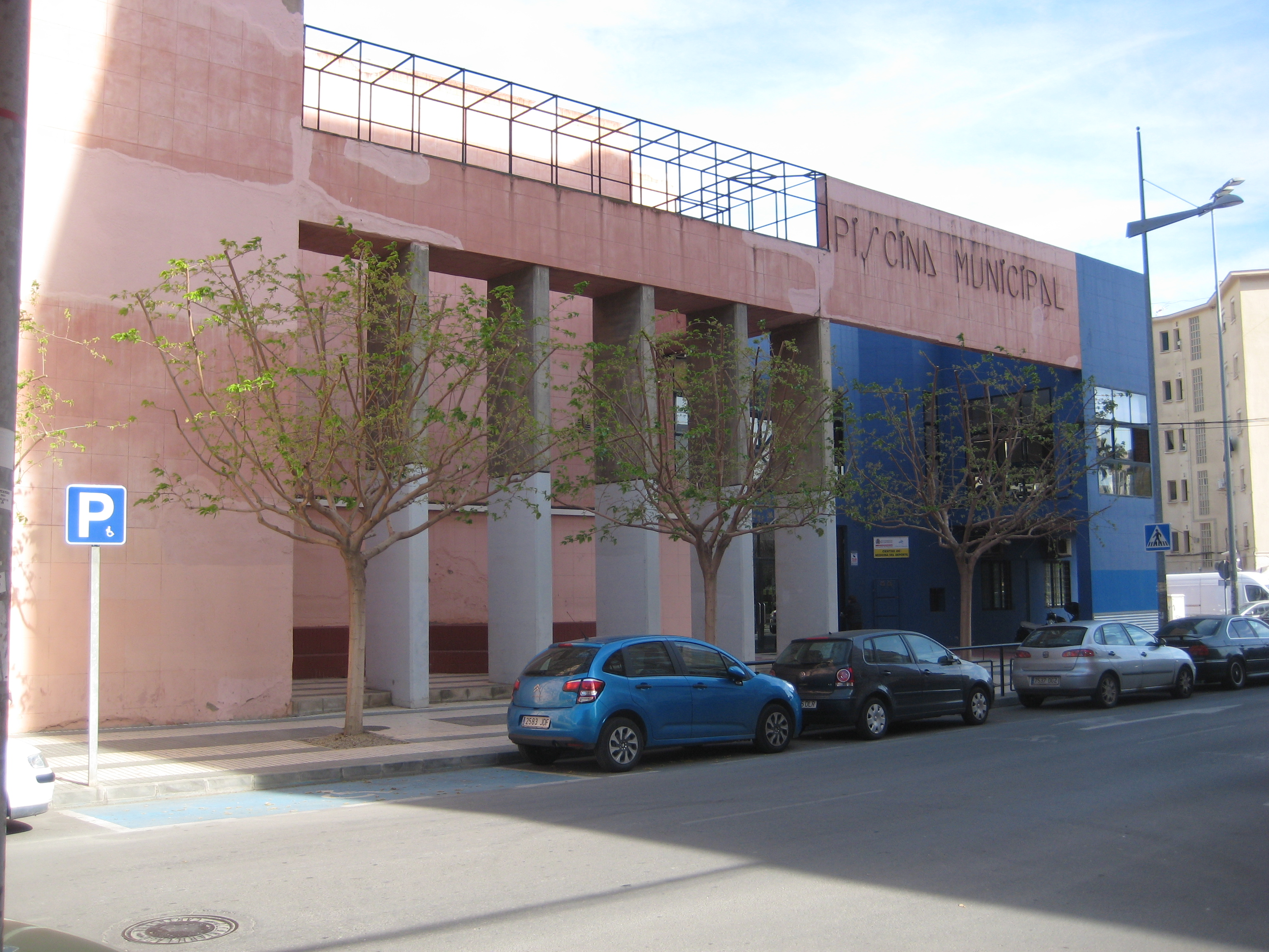 Municipal Pool Cartagena Spain